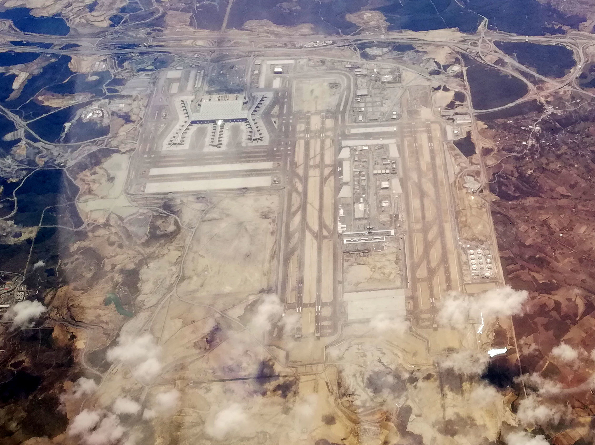 Istanbul New Airport under construction, 23.09.2018